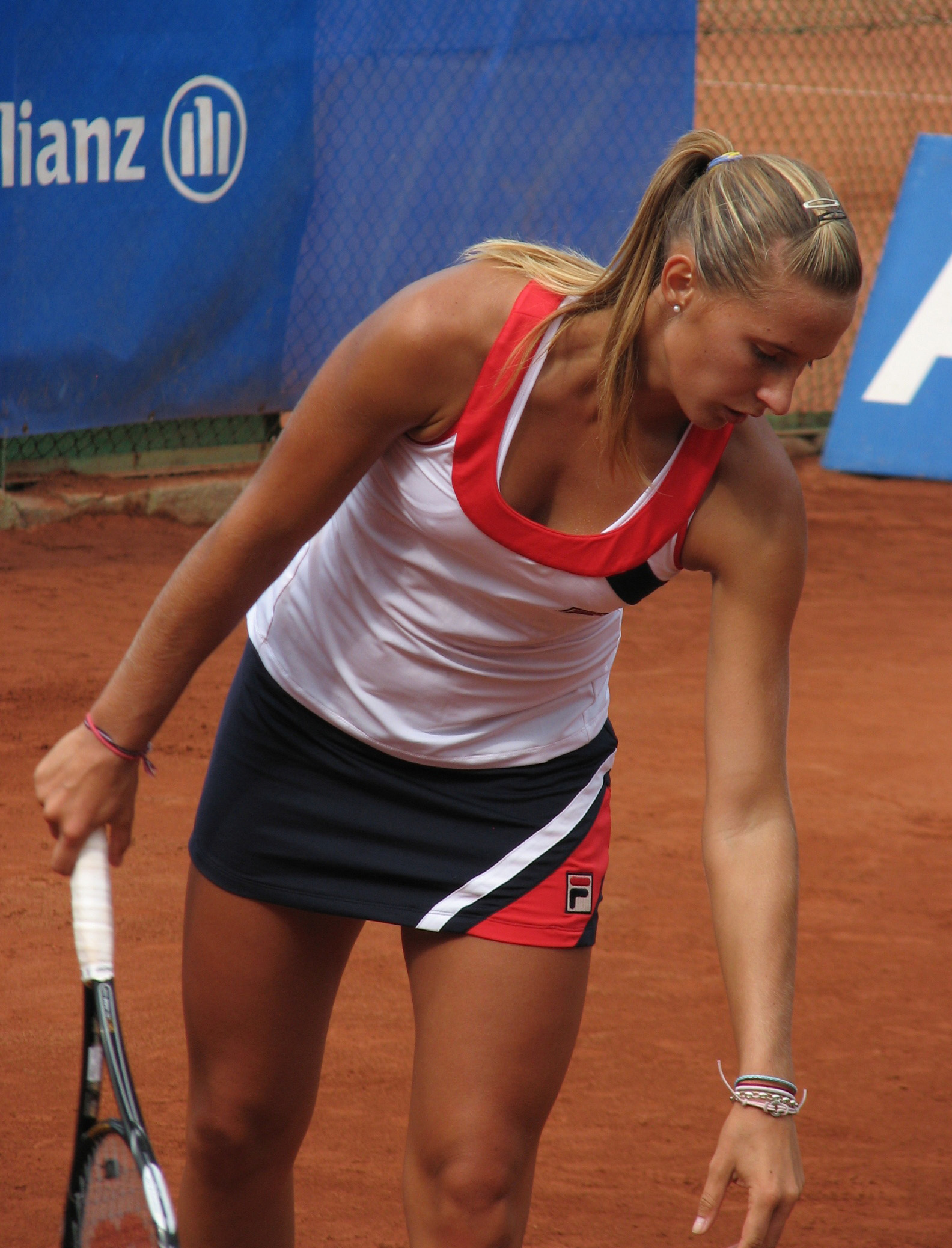 Polona Hercog (Allianz Cup 2009)